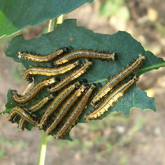 Nearly full-grown larvae of Boisduval's Tree Nymph at Ilanda Wilds